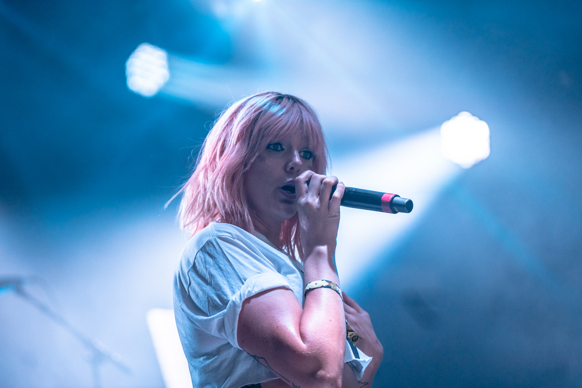 Betty Who